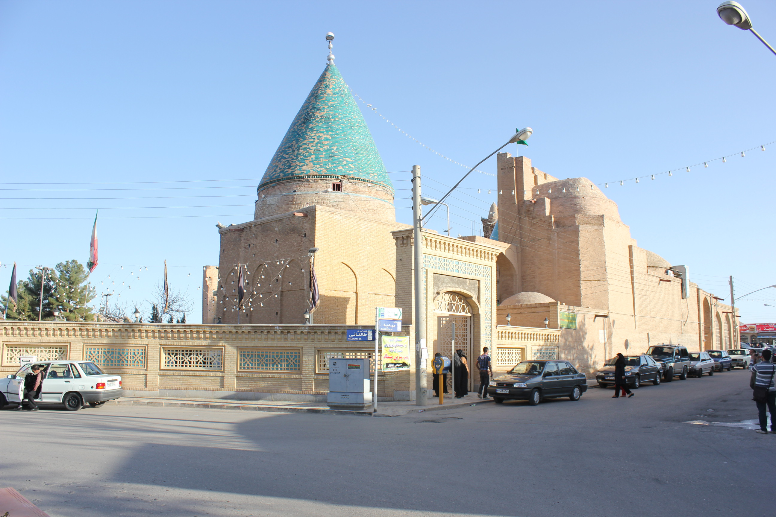 Bayzid Bastami